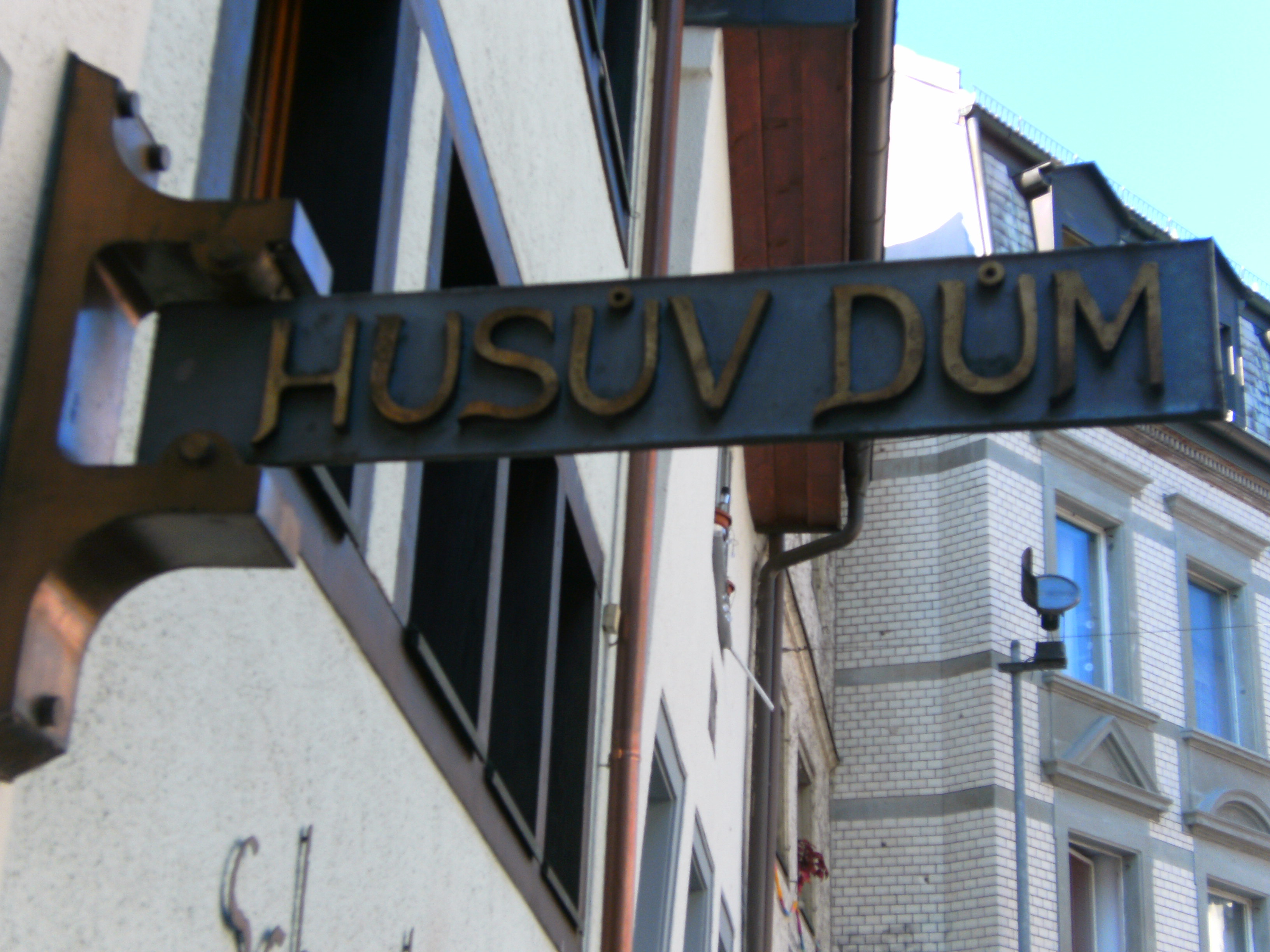 In Konstanz, Lake Constance, Germany in the street Hussenstraße the Hus-Museum is located: Sign at the house.